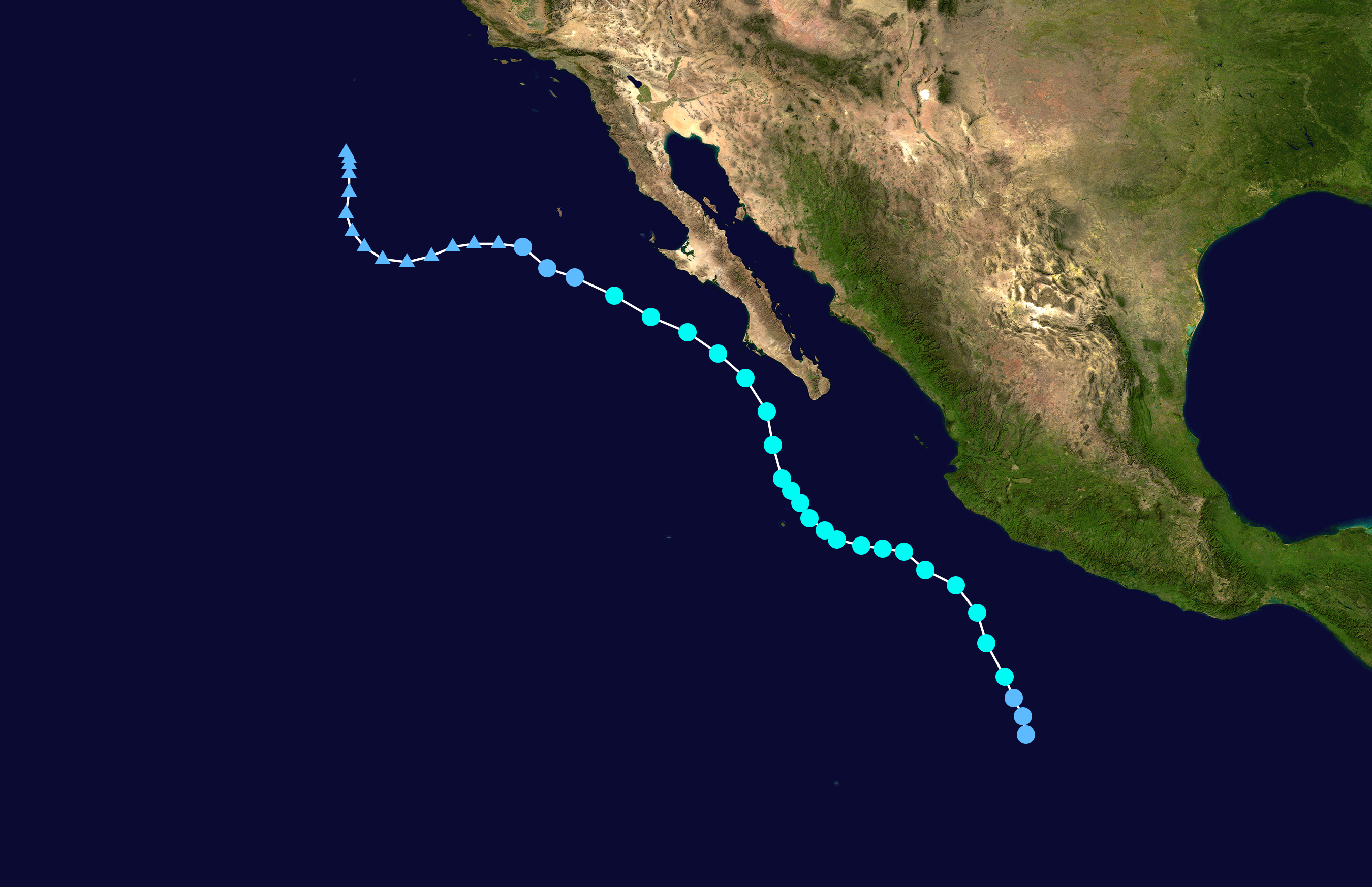 Track map of Tropical Storm Emilia of the 2006 Pacific hurricane season. The points show the location of the storm at 6-hour intervals. The colour represents the storm's maximum sustained wind speeds as classified in the Saffir–Simpson scale (see below), and the shape of the data points represent the nature of the storm, according to the legend below. Saffir–Simpson scale Tropical depression≤38 mph≤62 km/h Category 3111–129 mph178–208 km/h Tropical storm39–73 mph63–118 km/h Category 4130–156 mph209–251 km/h Category 174–95 mph119–153 km/h Category 5≥157 mph≥252 km/h Category 296–110 mph154–177 km/h Unknown Storm type Tropical cyclone Subtropical cyclone Extratropical cyclone / Remnant low / Tropical disturbance / Monsoon depression